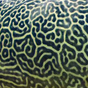 Detail of skin pattern on side of Giant Pufferfish, Tetraodon mbu, showing resemblance to Belousov-Zhabotinsky reaction pattern.